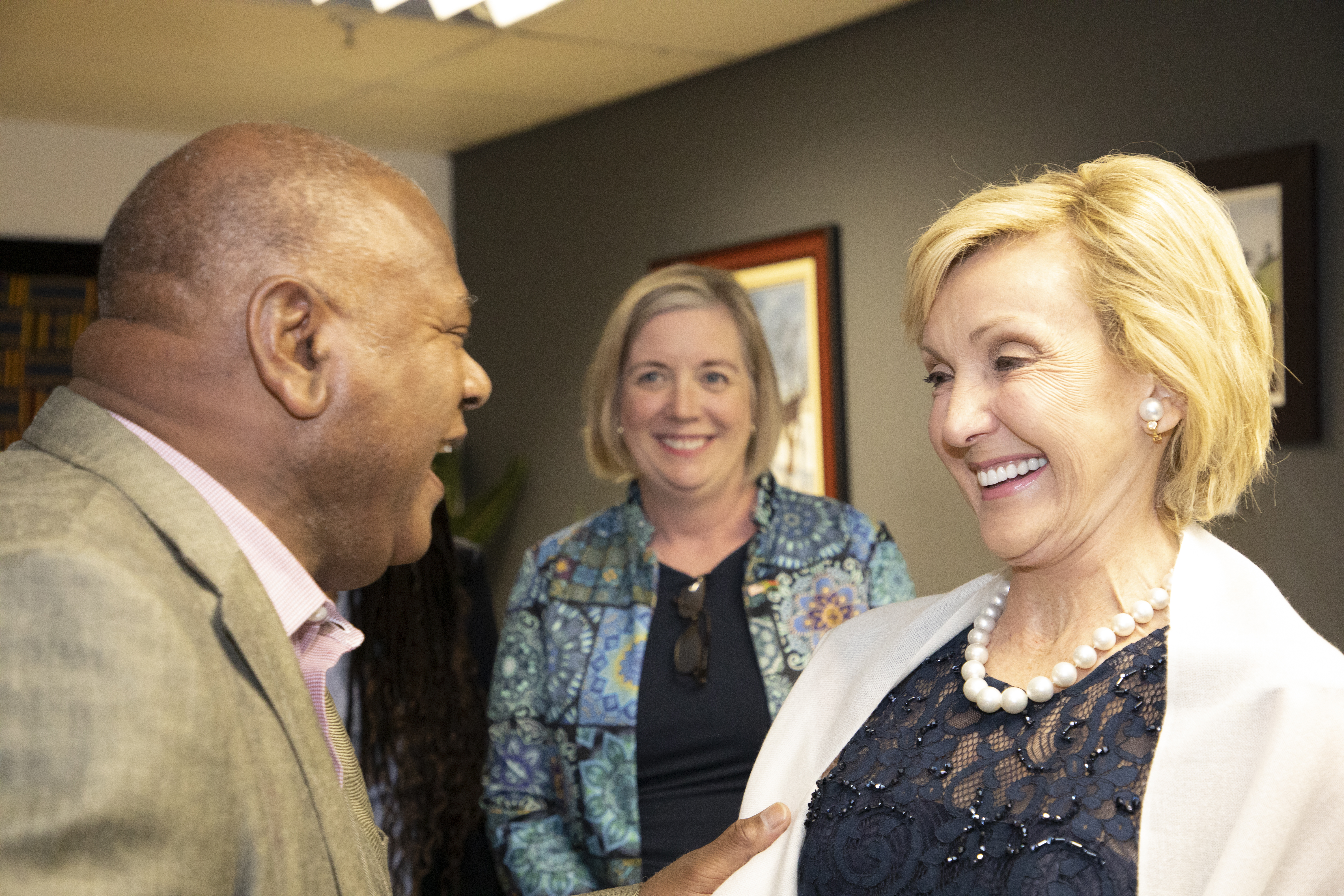 New York to Cape Town Inaugural Flight